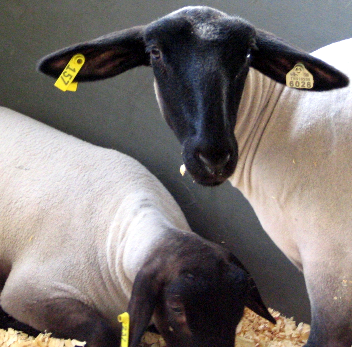 A pair of Suffolk sheep at the 2006 Williamson County Fair. These sheep are shorn for showing.